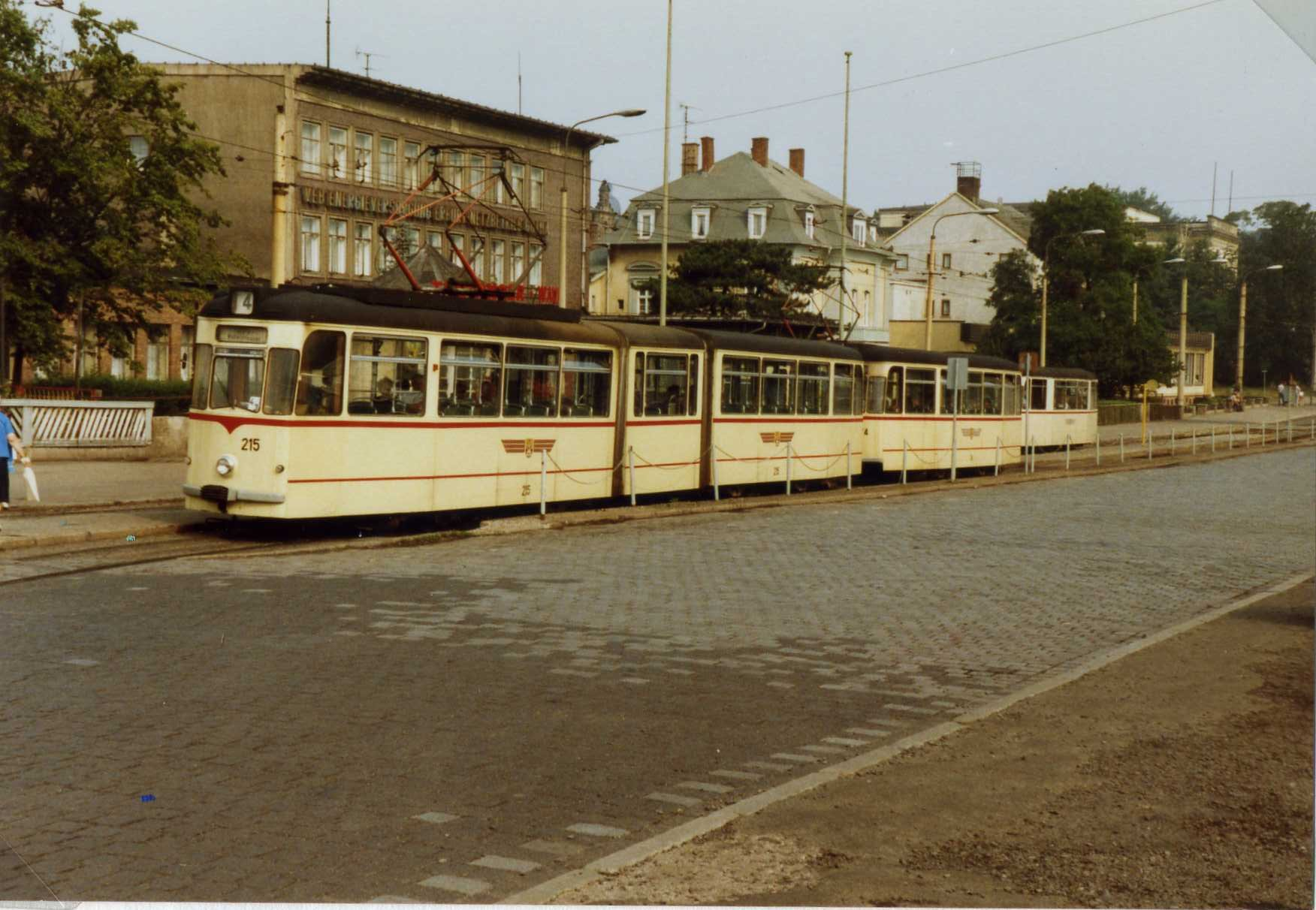 Behind the trams the offices of the VEB Energieversorgung Erfurt Netzbetrieb Gotha. I wonder whether this once lit up at night. The nearer car is on the long overland route to Tabarz, no 4, the so-called Thüringerwaldbahn . Further away is a similar vehicle on route 1 , the town service to the depot. This vehicle,no 215, is now preserved in Gotha. Gotha only came late to the local G4 trams in 1965-7. Other systems had been using them since the late 1950s. By 1992 all these handsome vehicles had been withdrawn from normal service in Gotha.